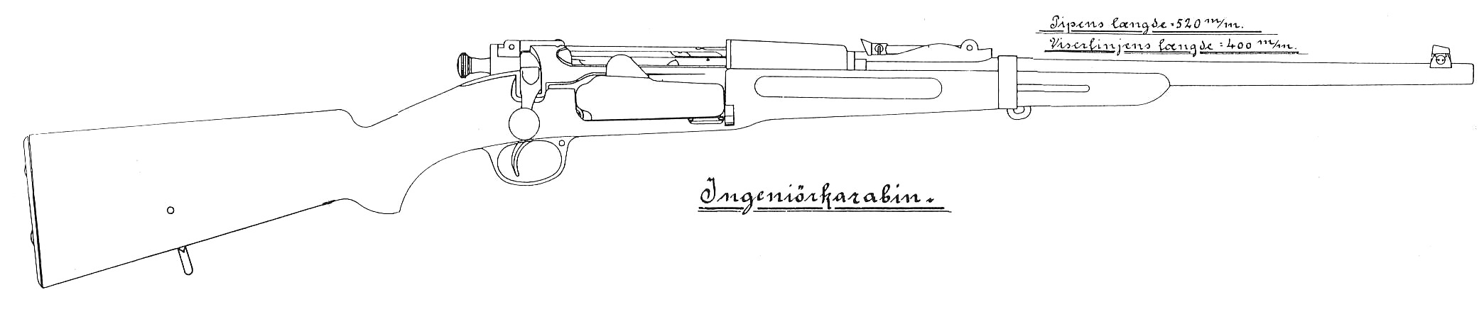 Krag-Jørgensen M1897. Picture first appeared in Norwegian Army manuals prior to 1923.